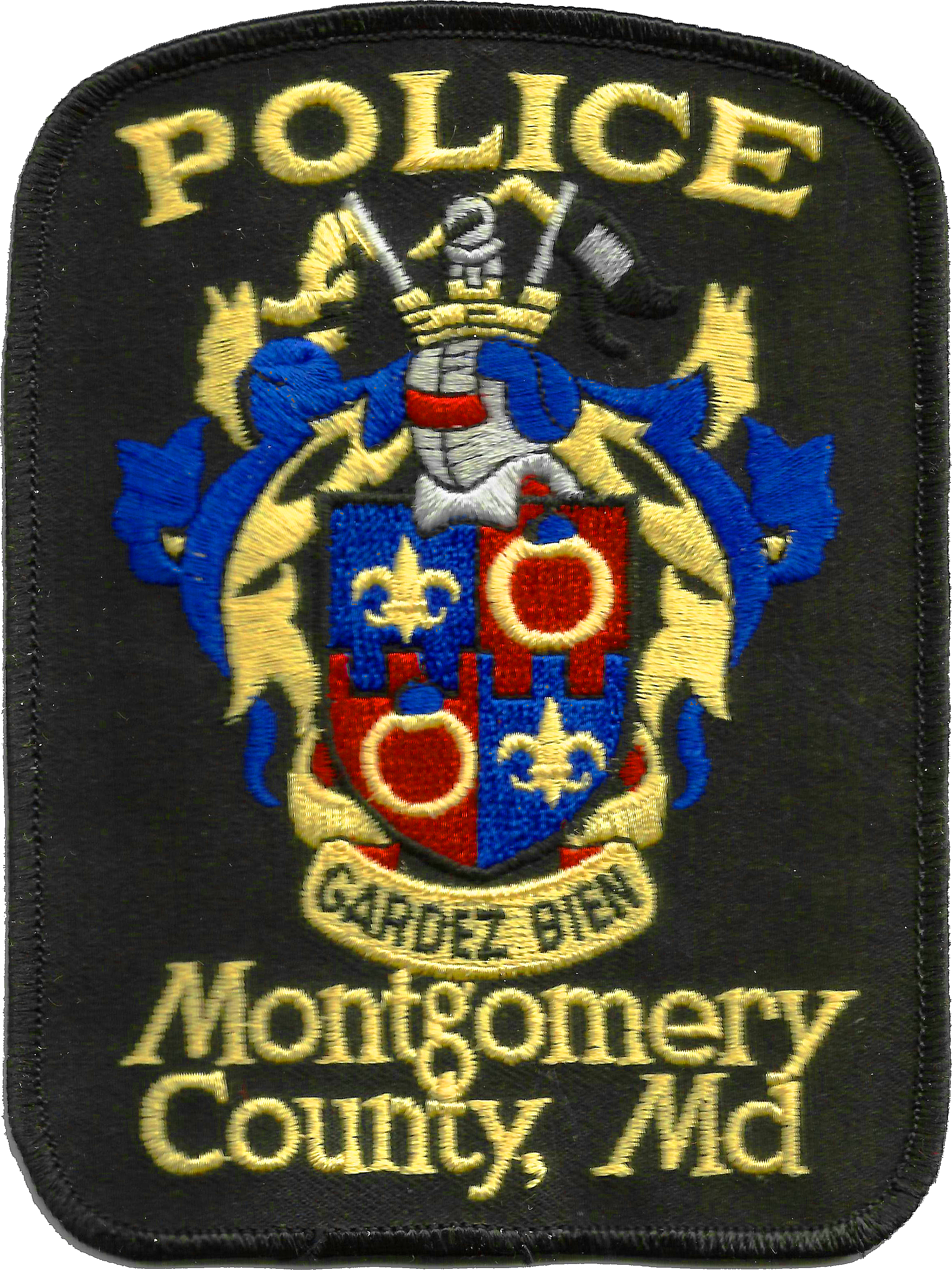 The current patch of the Montgomery County, Maryland Police Department (MCPD), from 1981 to the present.